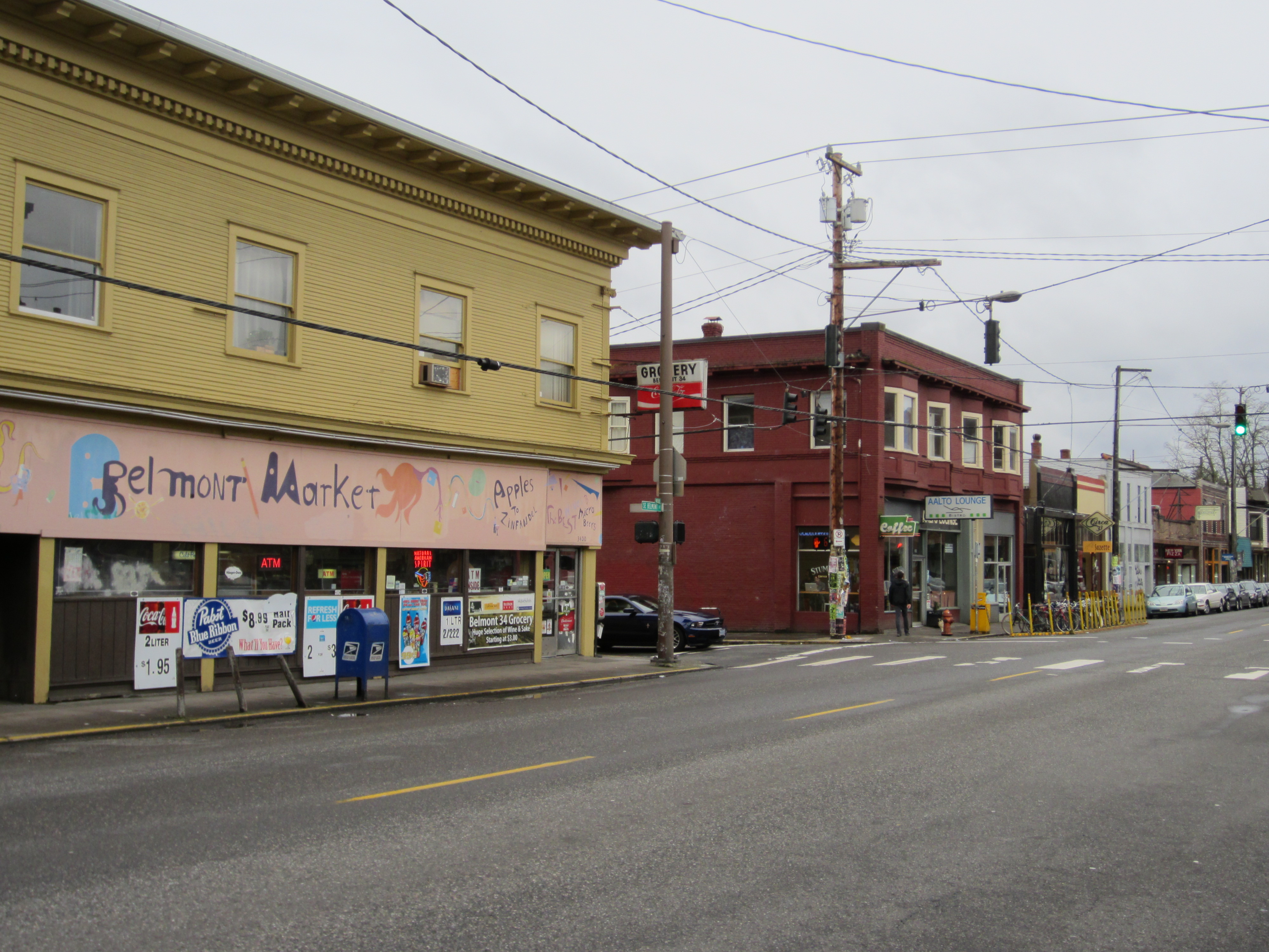 Belmont Street, southeast Portland, Oregon in 2012